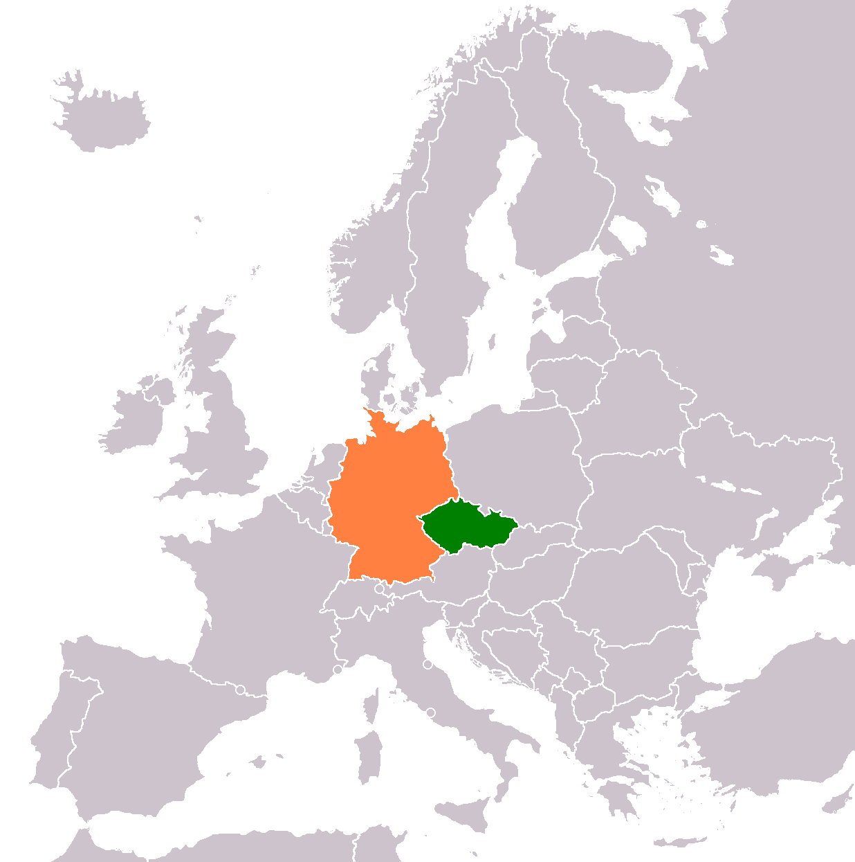 Czech Republic-Germany locator map.